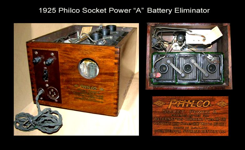 The Philco Socket Power "A", "B", and "AB" Battery Eliminators was its first major product, which was developed in 1925. The "A" and "AB" models was housed in a wooden box enclosure and the "B" model was housed in a metal box enclosure.